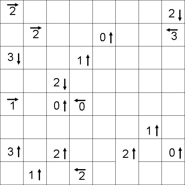 Yajisan Kazusan Puzzle